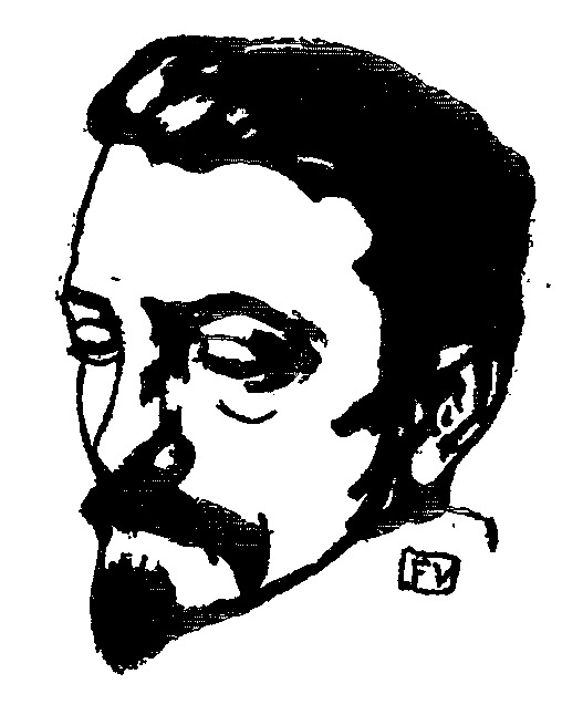 Portrait of Dutch writer Multatuli (1820-1887) by Félix Valloton (1865-1925)